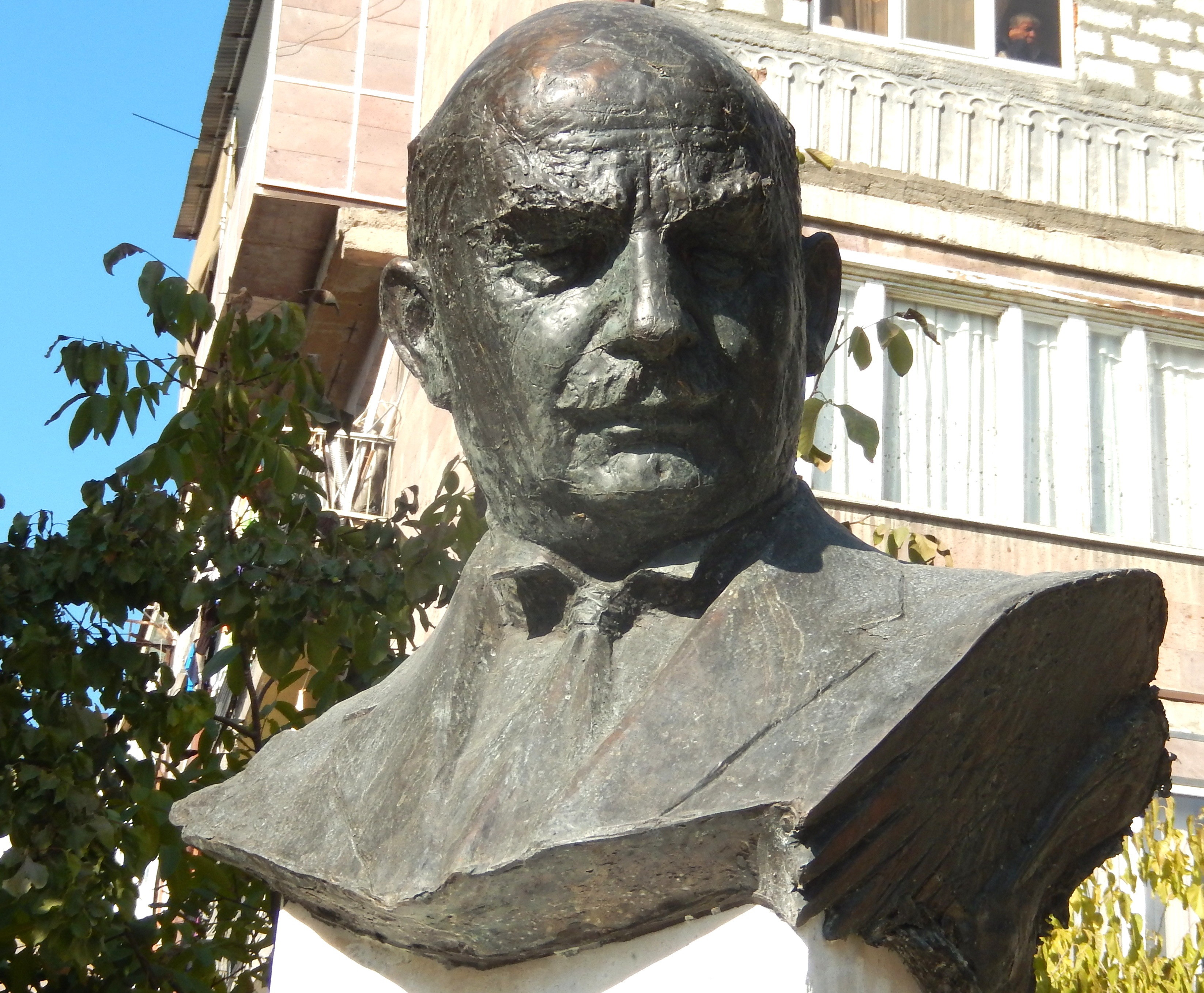 Galust Gyulbenkyan bust on Gyulbenkyan street, Arabkir, Yerevan